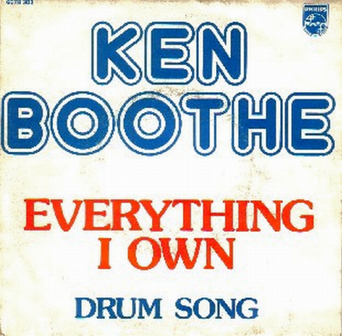 Cover of the 1974 single Everything I Own by Ken Boothe.